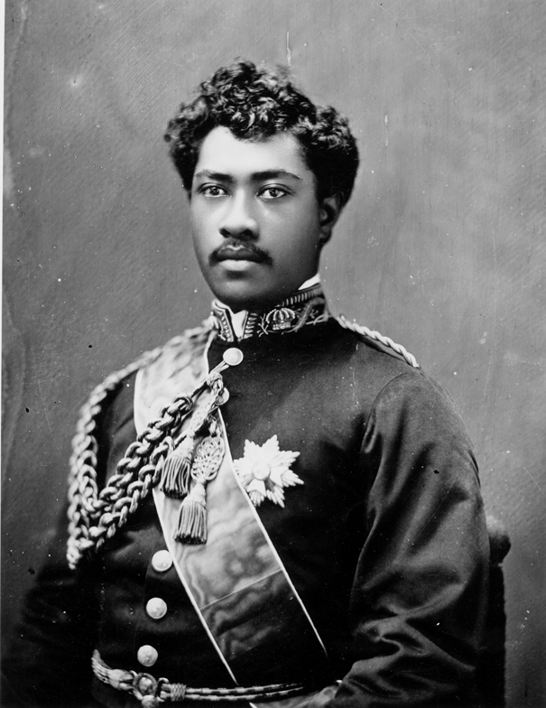 Prince William Pitt Leleiohoku II of Hawaii wearing uniform with the royal orders of Kamehameha I and Kalākaua I.